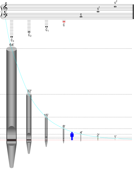 Ratio between pitch and length of an organ pipe. uploaded by user: Kantor.JH on 05:47, 6. Nov. 2006.